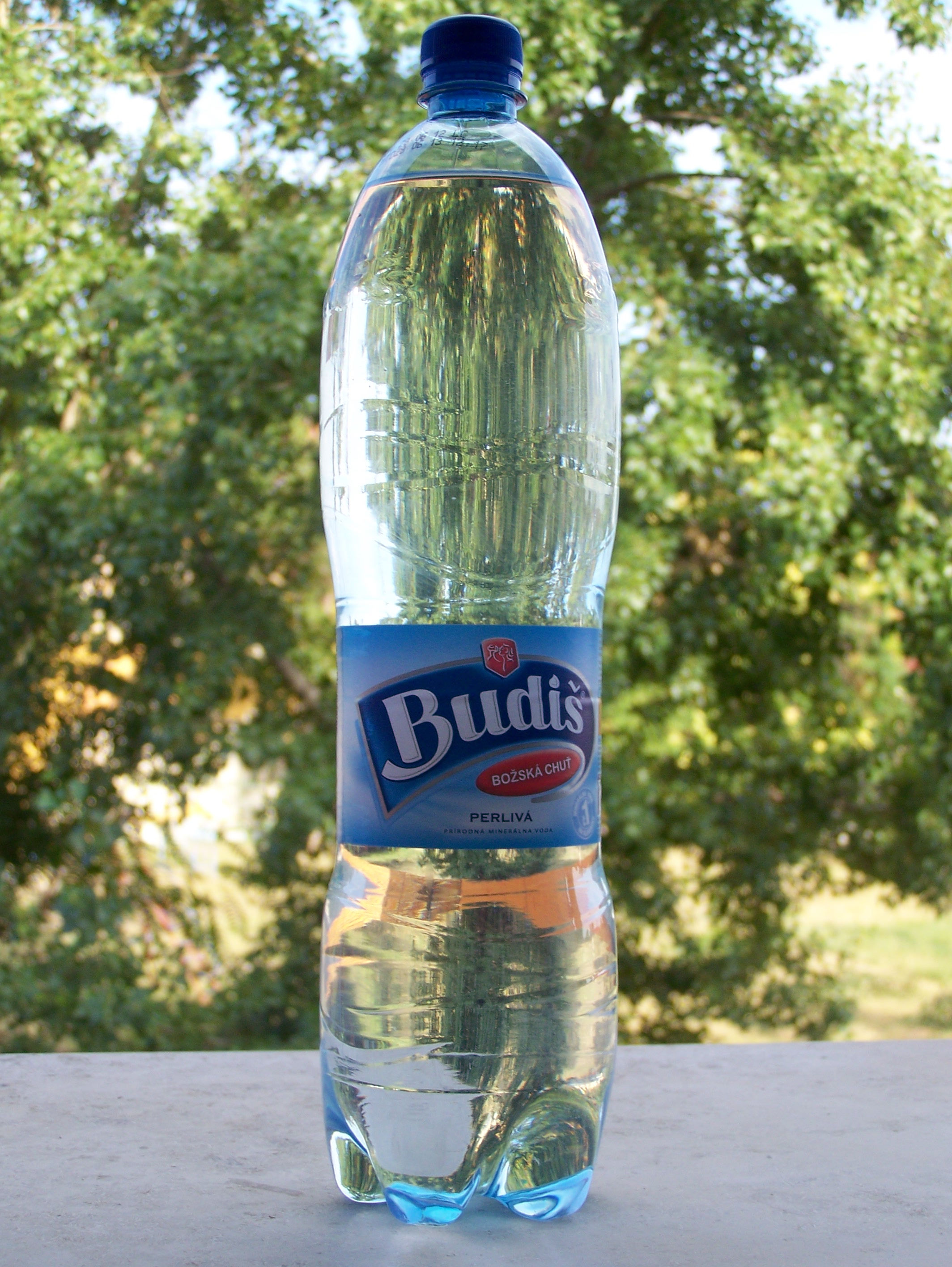 A bottle of Budiš mineral water